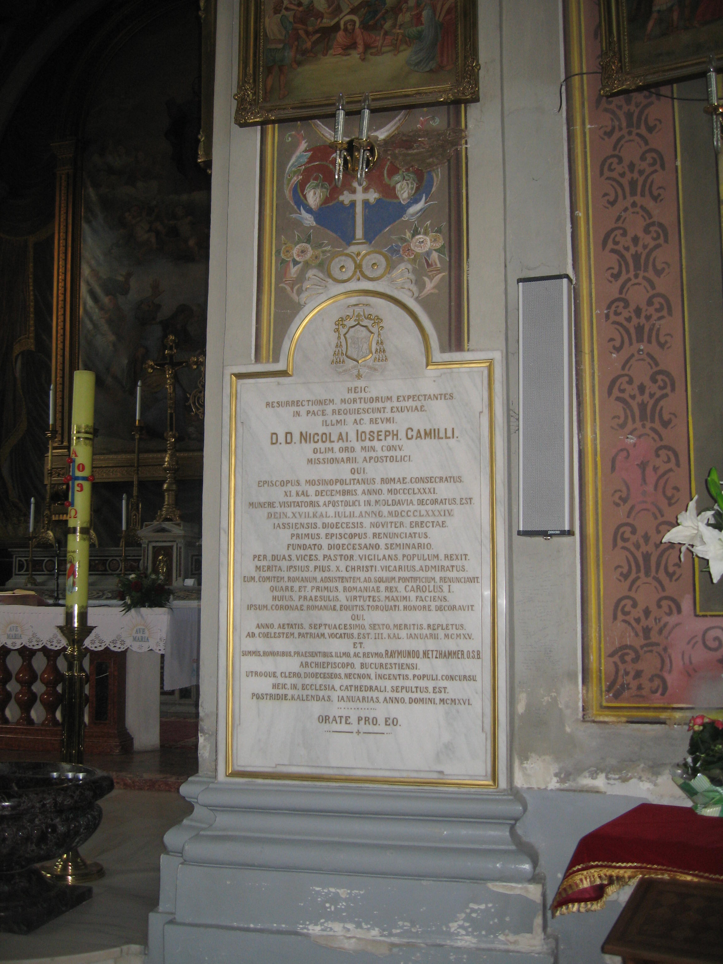 Catedrala Adormirea Maicii Domnului din Iaşi